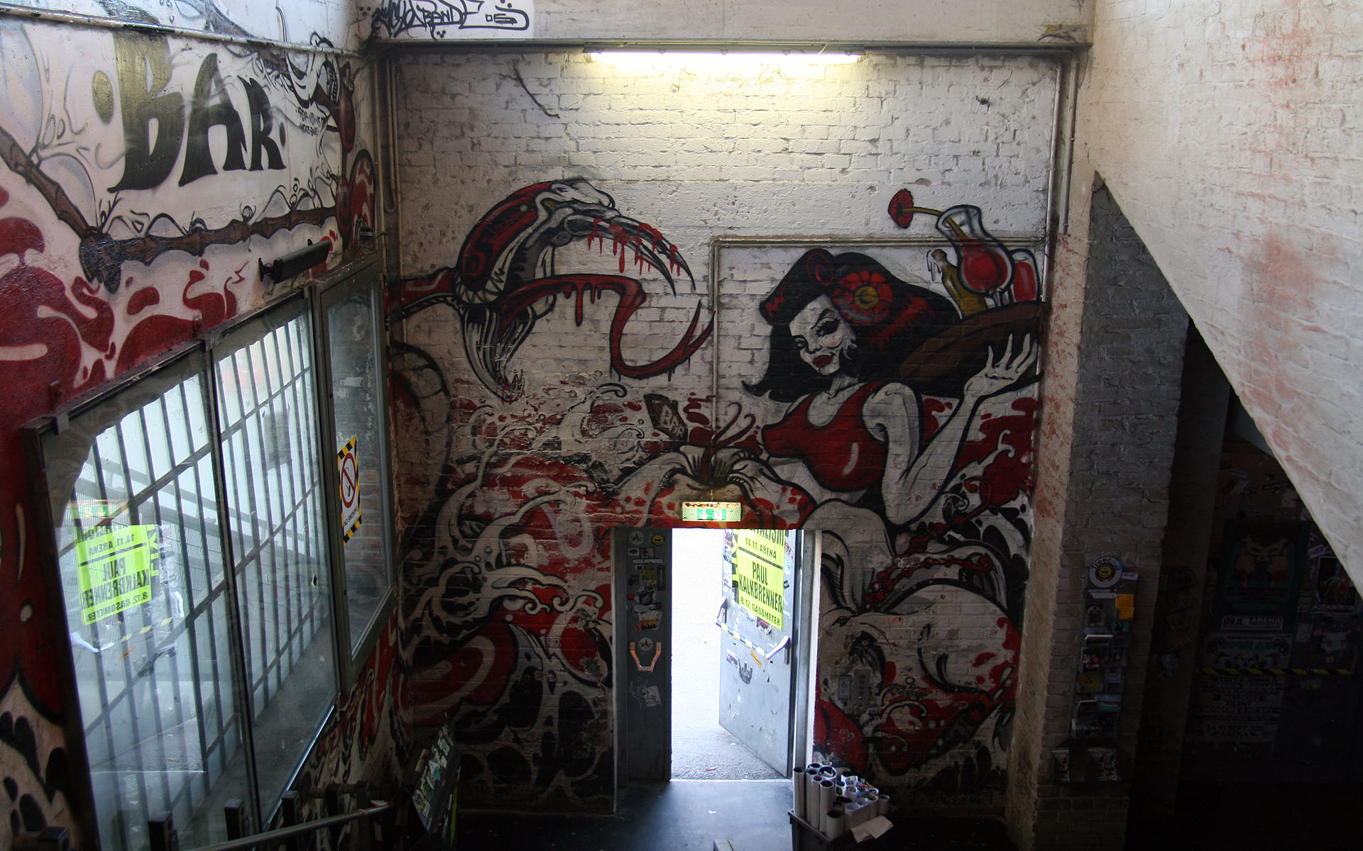 At the cultural center Arena in Vienna, Austria.